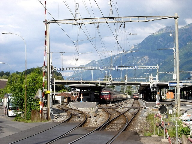 Jungraubahnen, Interlaken Ost station